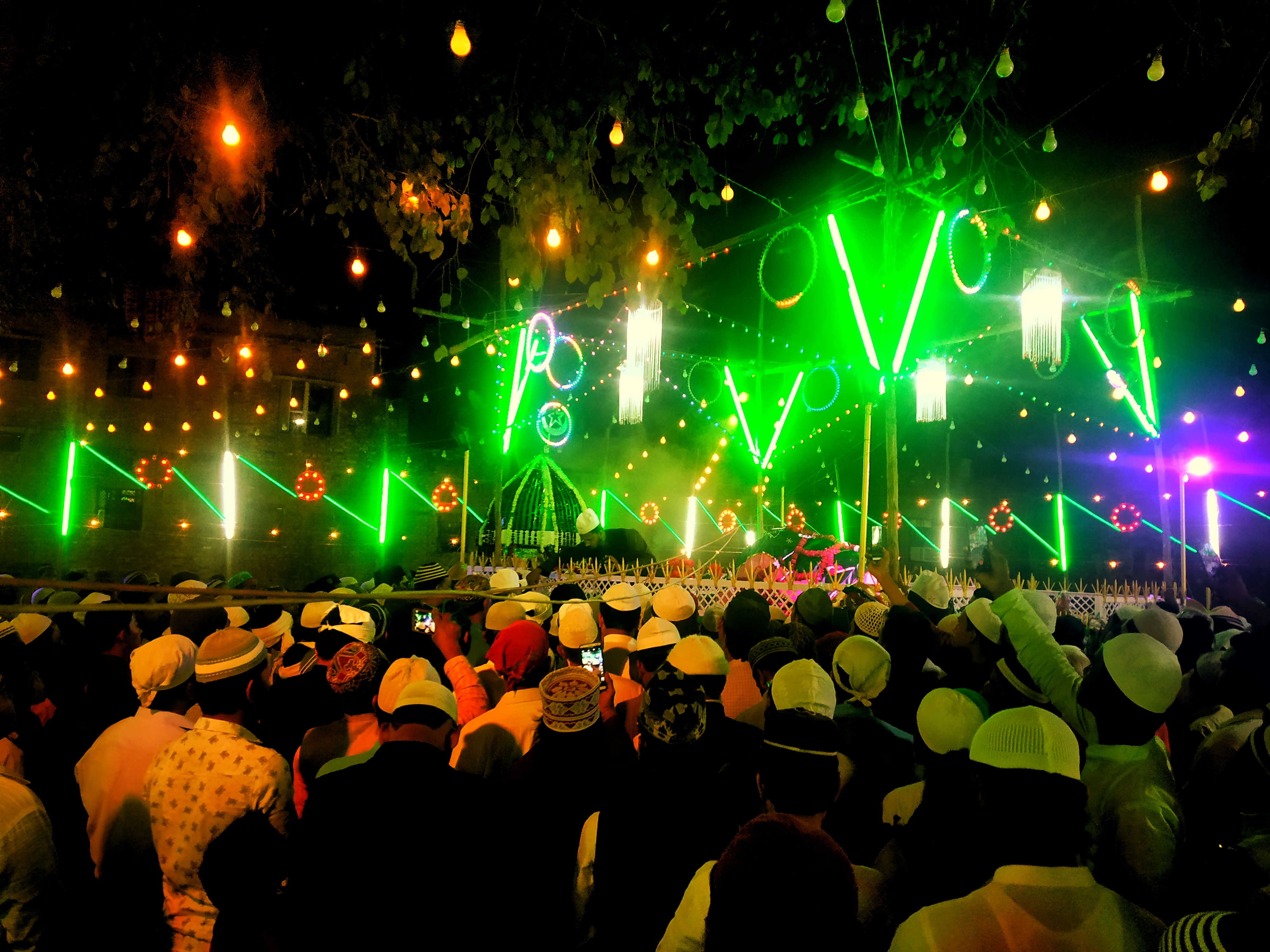 उर्स हज़रत शाह मुहिबउल्लाह इलाहाबादी